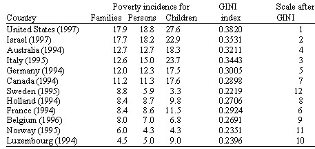 Poverty in Israel compared to the rest of the world